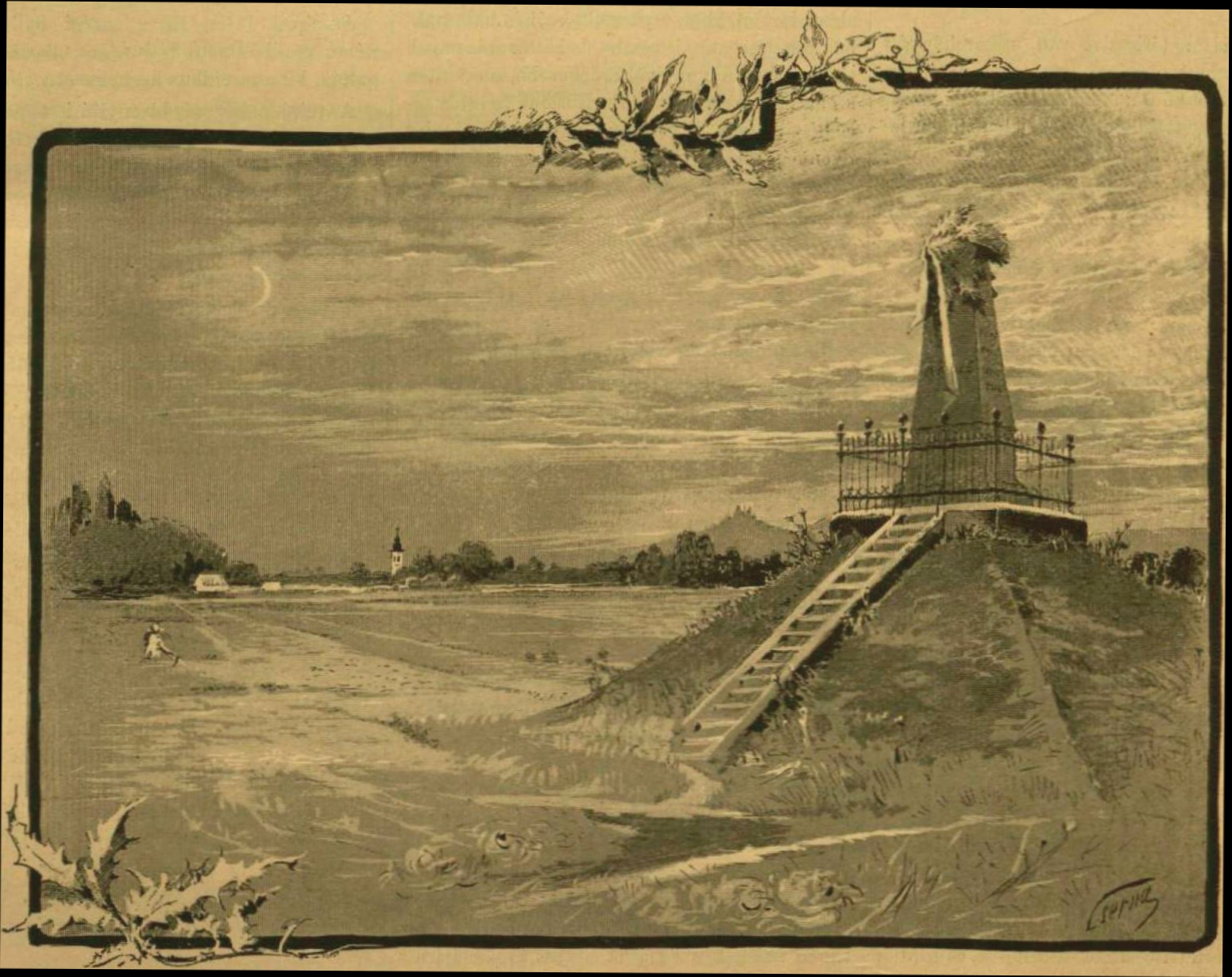 Memorial of the 13 Martyrs of Arad. In Arad, Romania.